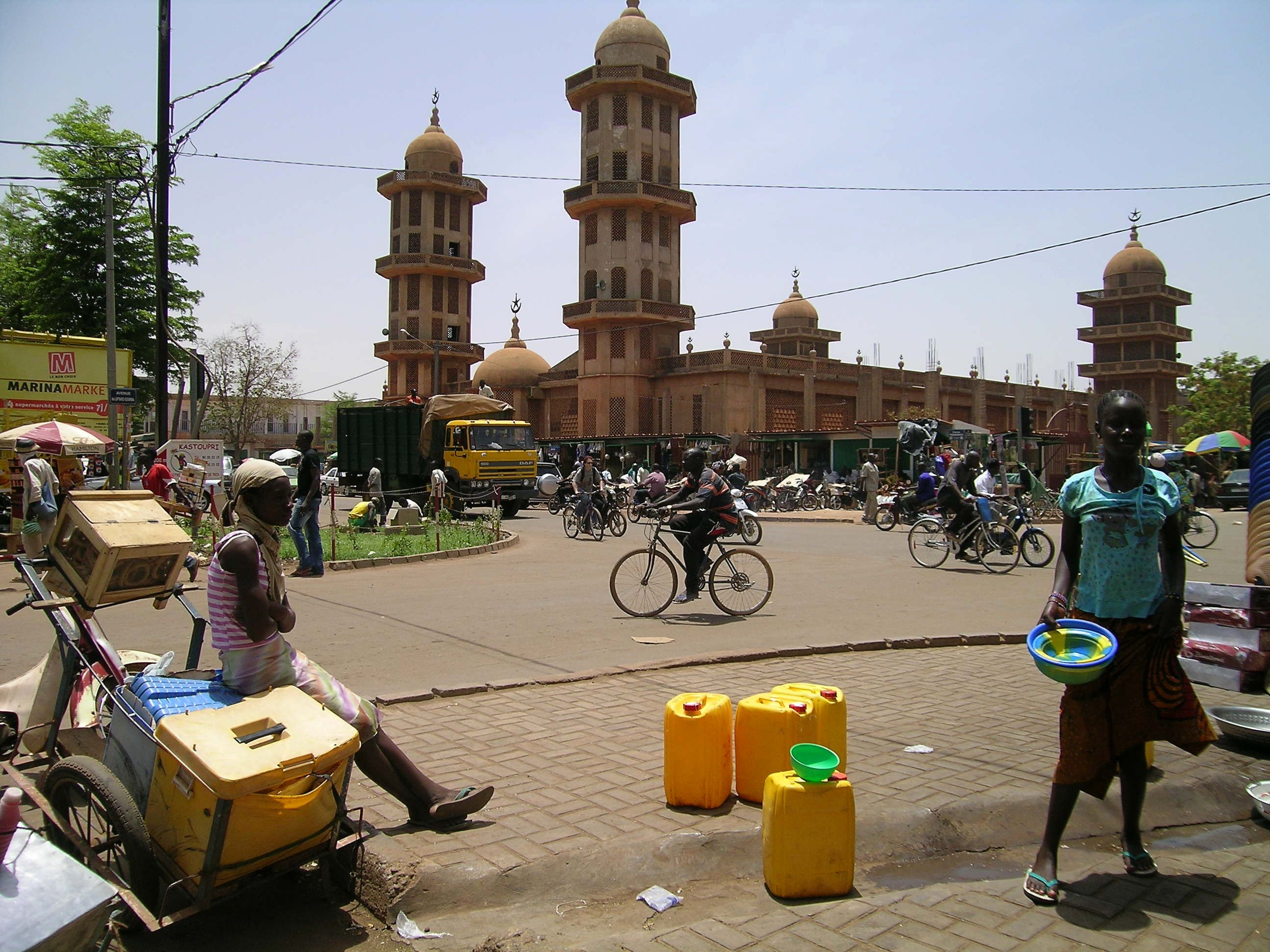 Ouagadougou Grand Mosque, Street merchants in the foreground